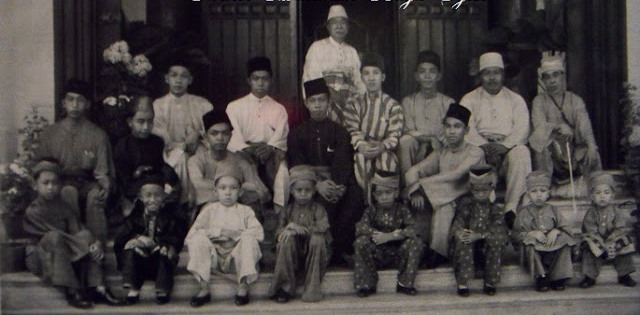 Picture of Sultan Alauddin Sulaiman Shah, the fifth sultan of Selangor with some of his sons